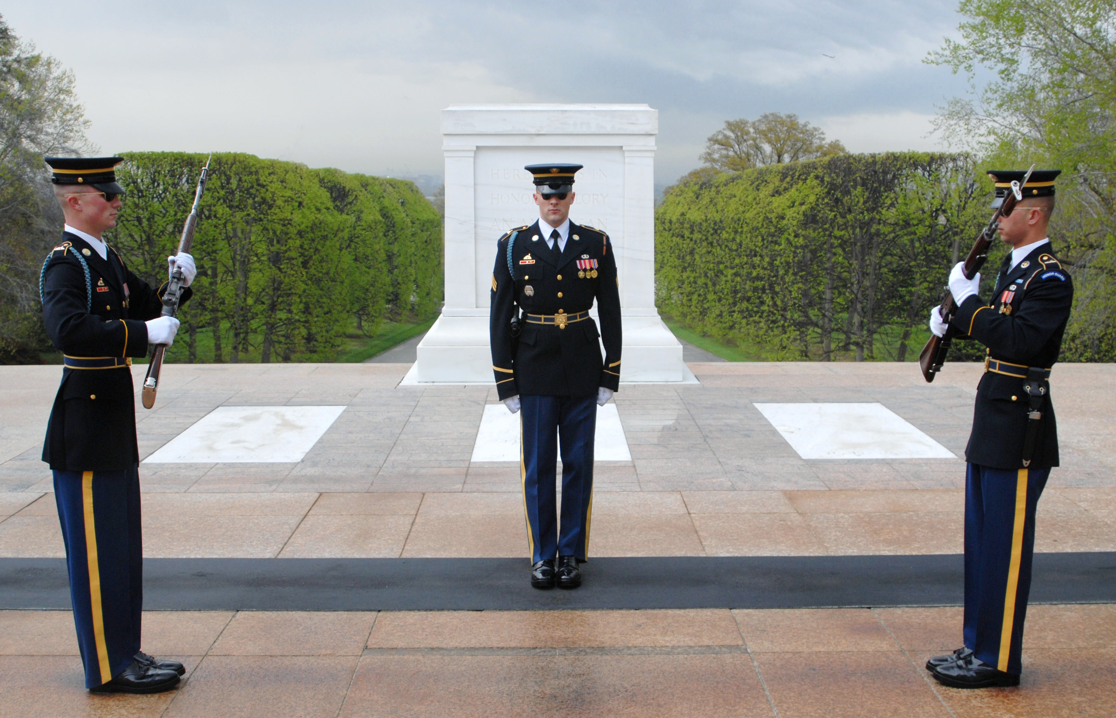 (Left to right) Sgt. Benton Thames, Sgt. Jeff Binek and Spc. William Johnson change the guard at the Tomb of the Unknowns. The ceremony is full of tradition and meaning. For example, sentinels take 21 steps or stand for 21 seconds—honoring the unknowns with a version of the 21-gun salute.